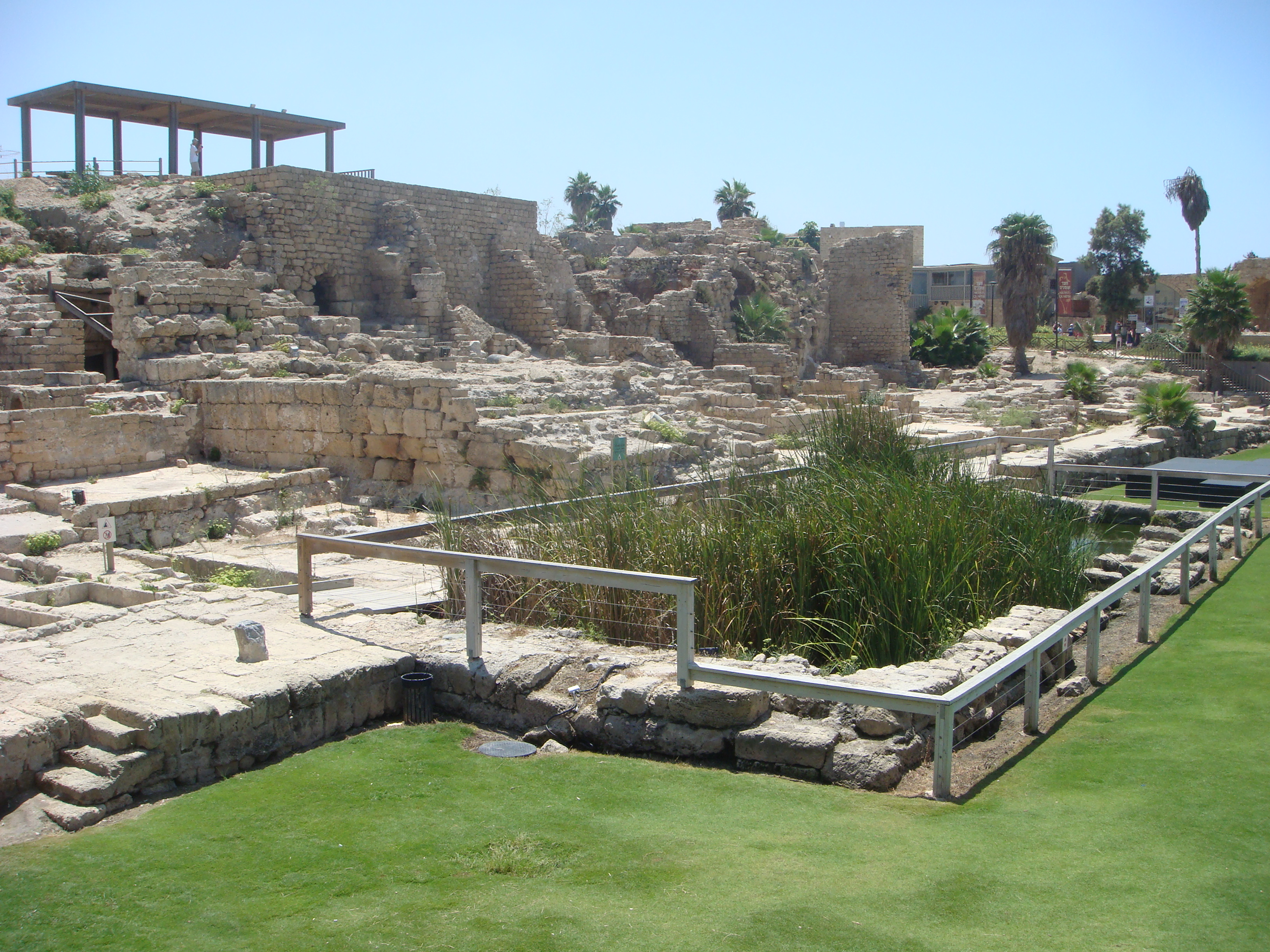 Remnants of the temple of Roma and Augustus at Caesarea Maritima.